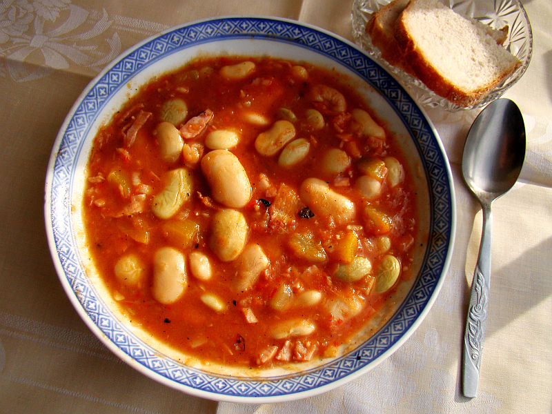 Polish bretonne beans with tomatoes